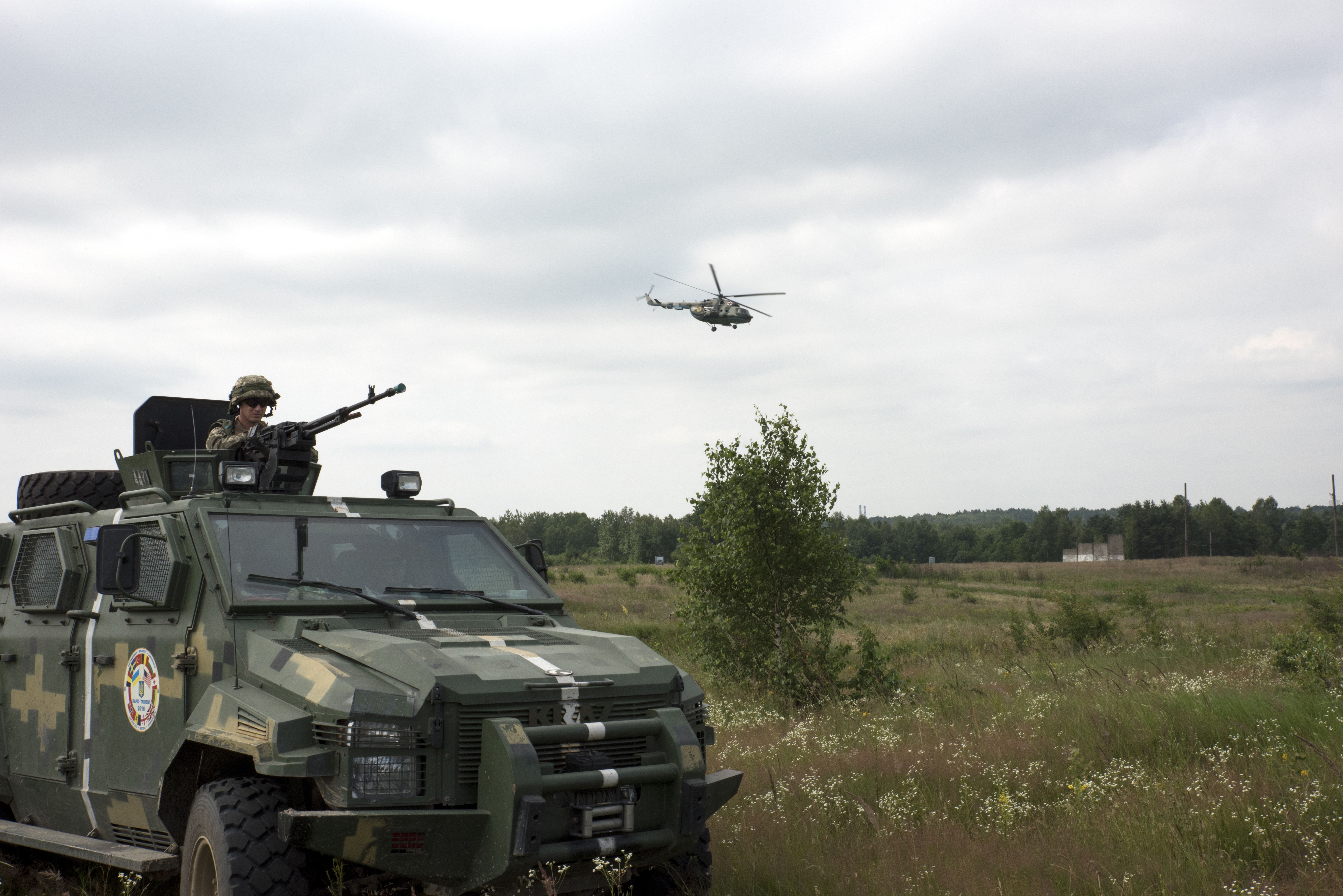 A Ukrainian soldier prepares to engage the opposition forces during an air assault at Exercise Rapid Trident 16 July 3, 2016. The exercise is a regional command post and field training exercise that involves about 2,000 Soldiers from 13 different nations, being held at the International Peacekeeping and Security Center in Yavoriv, Ukraine June 27 - July 8, 2016.